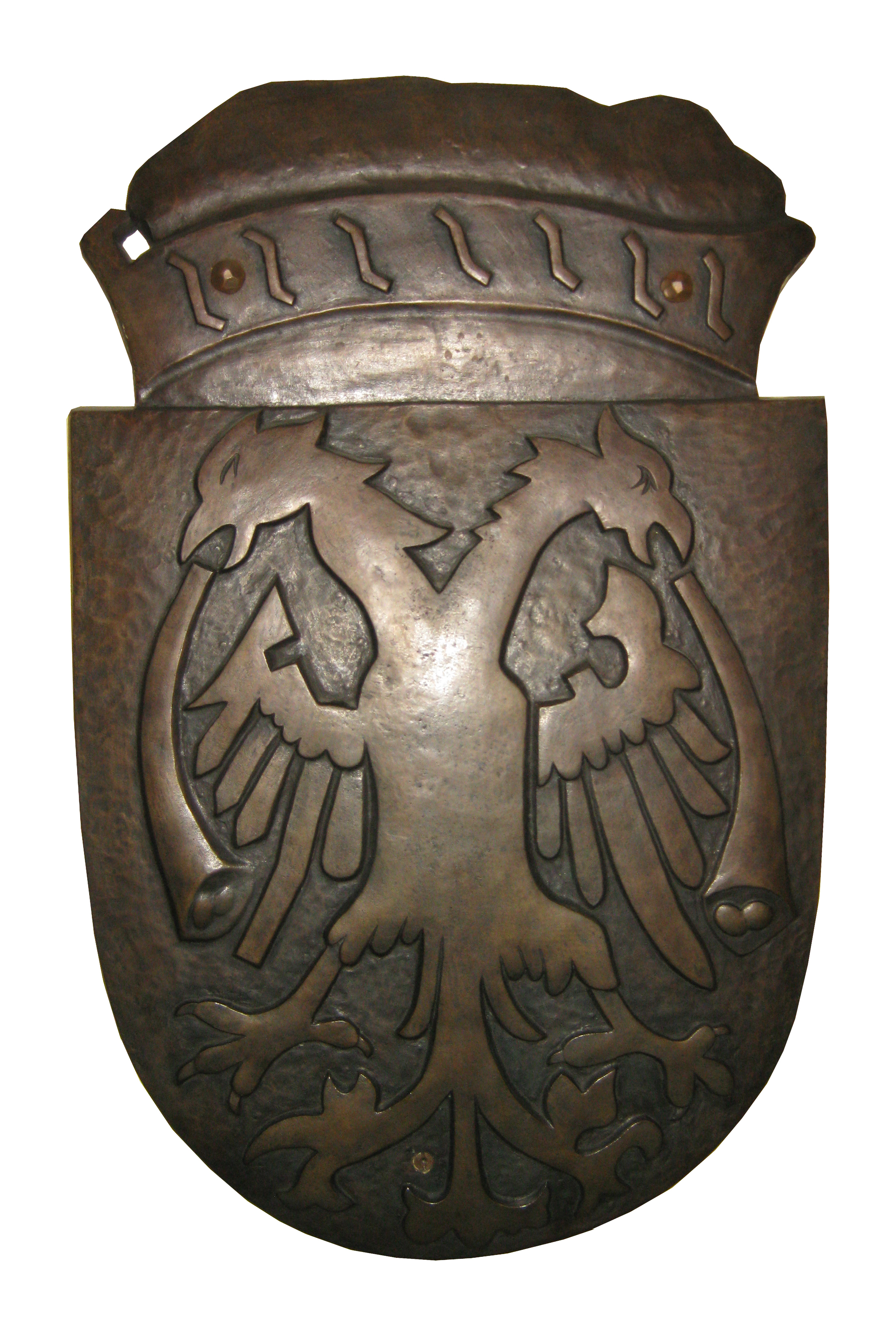 Dynasty-era emblem ,house of Nemanjić